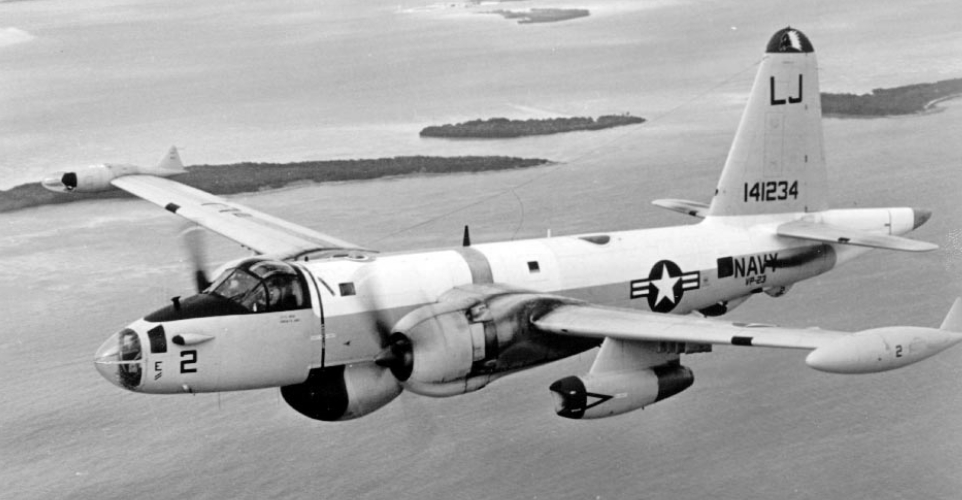 A U.S. Navy Lockheed SP-2H Neptune aircraft (BuNo 141234) from Patrol Squadron VP-23 in flight. 141234 was retired on 4 November 1974 and is now on display at the National Museum of Naval Aviation, Pensacola, Florida (USA).